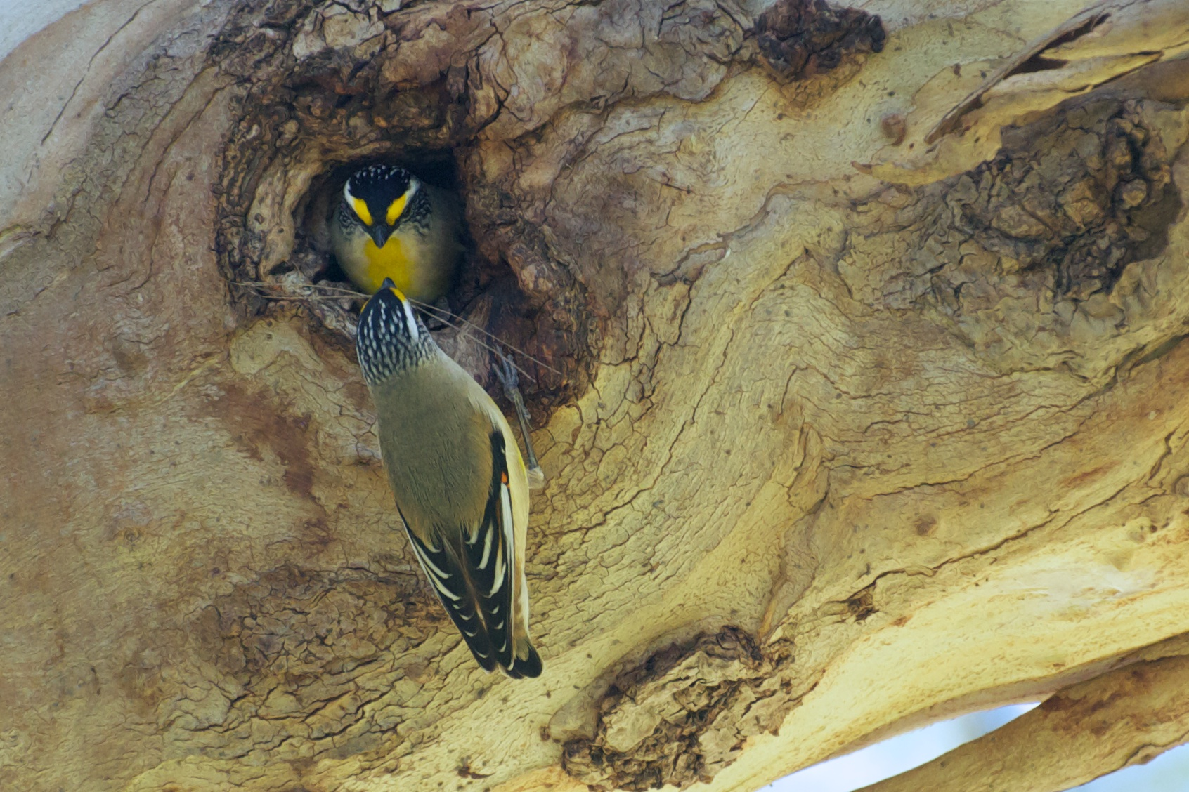 Nesting in a eucalyptus tree hollow, Redcliffe, Perth, Western Australia.